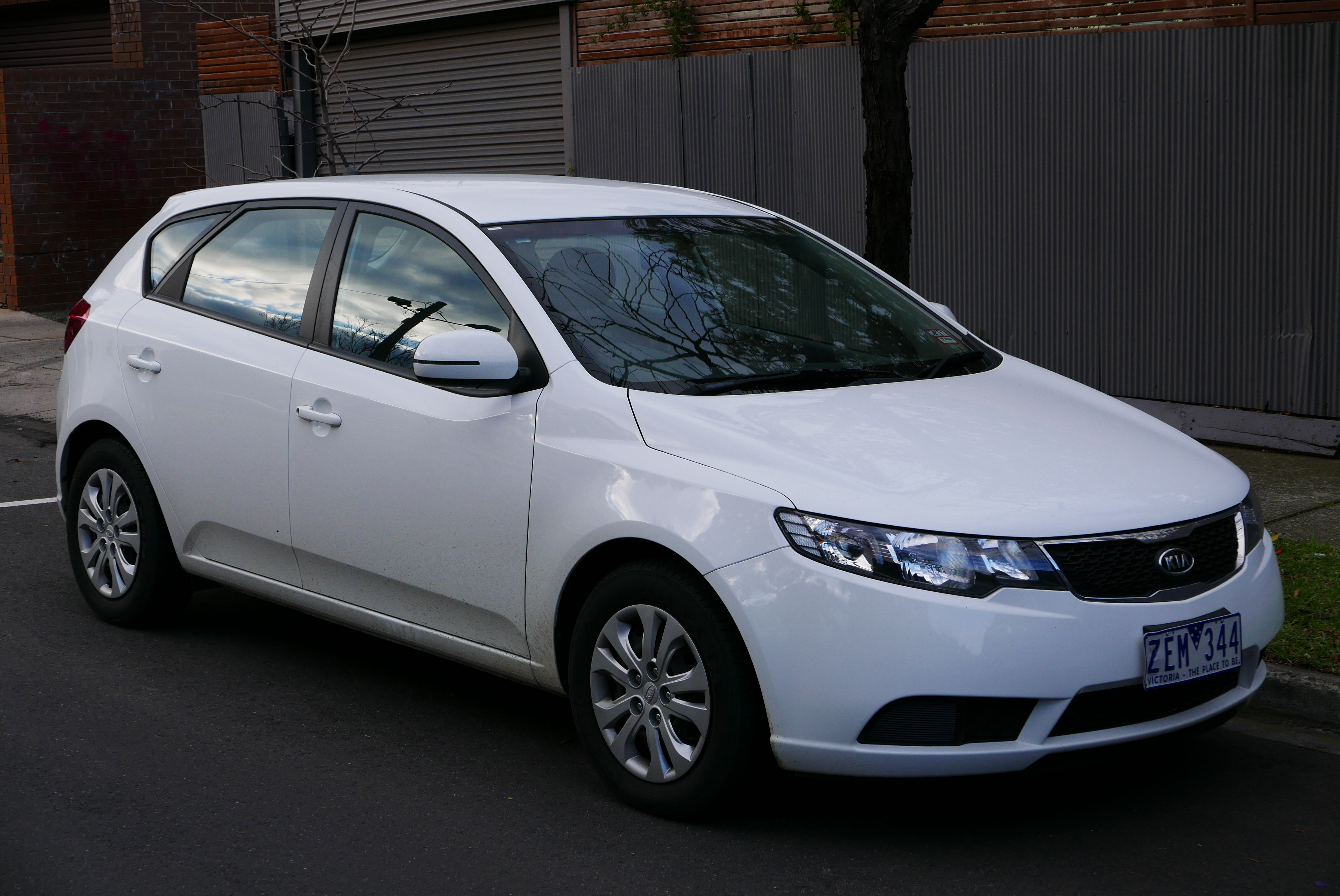 2012 Kia Cerato (TD MY13) Si hatchback. Photographed in Northcote, Victoria, Australia. Vehicle registration enquiry resultsJurisdictionVictoriaRegistrationZEM344Chassis codeKNAFT512MC5573830Engine codeG4KDBH744770Compliance date2012-07Year of manufacture2012